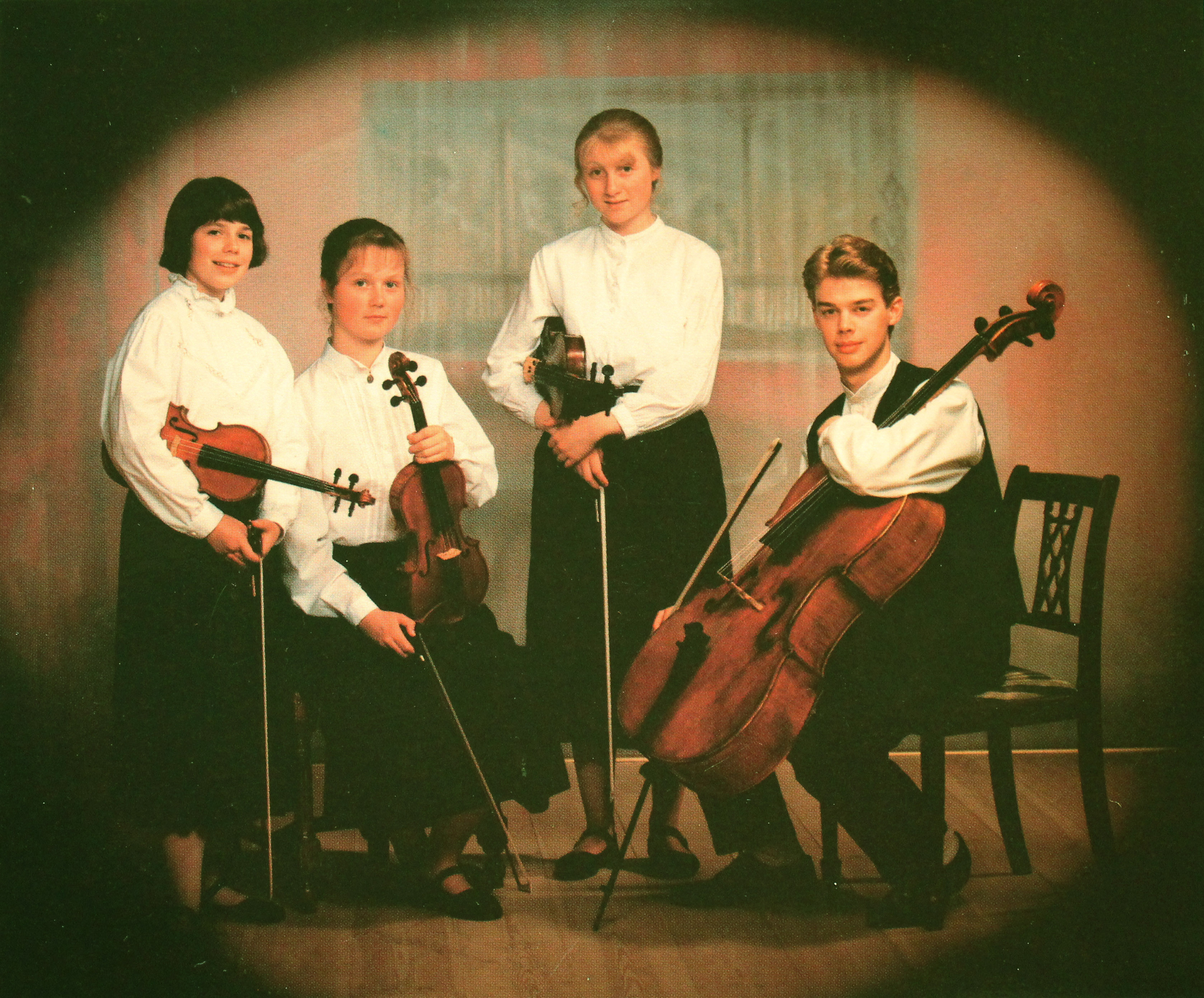 the Norwegian string quartet Trønderkvartetten, from Trondheim. The group existed 1982–1990. All four musicians were pupils at the local School of music. 1. violin: Elise Båtnes, 2. violin: Mari Giske, viola: Guri Krog, cello: Tormod Dalen